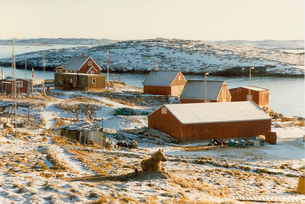 From left: The tiny office for the local council (bygderådet), replaced in 1989. The green KNI-office. Behind that, the old store managers house B-85. The other houses are the old storage and salting houses B-71, B-75 and B-83.